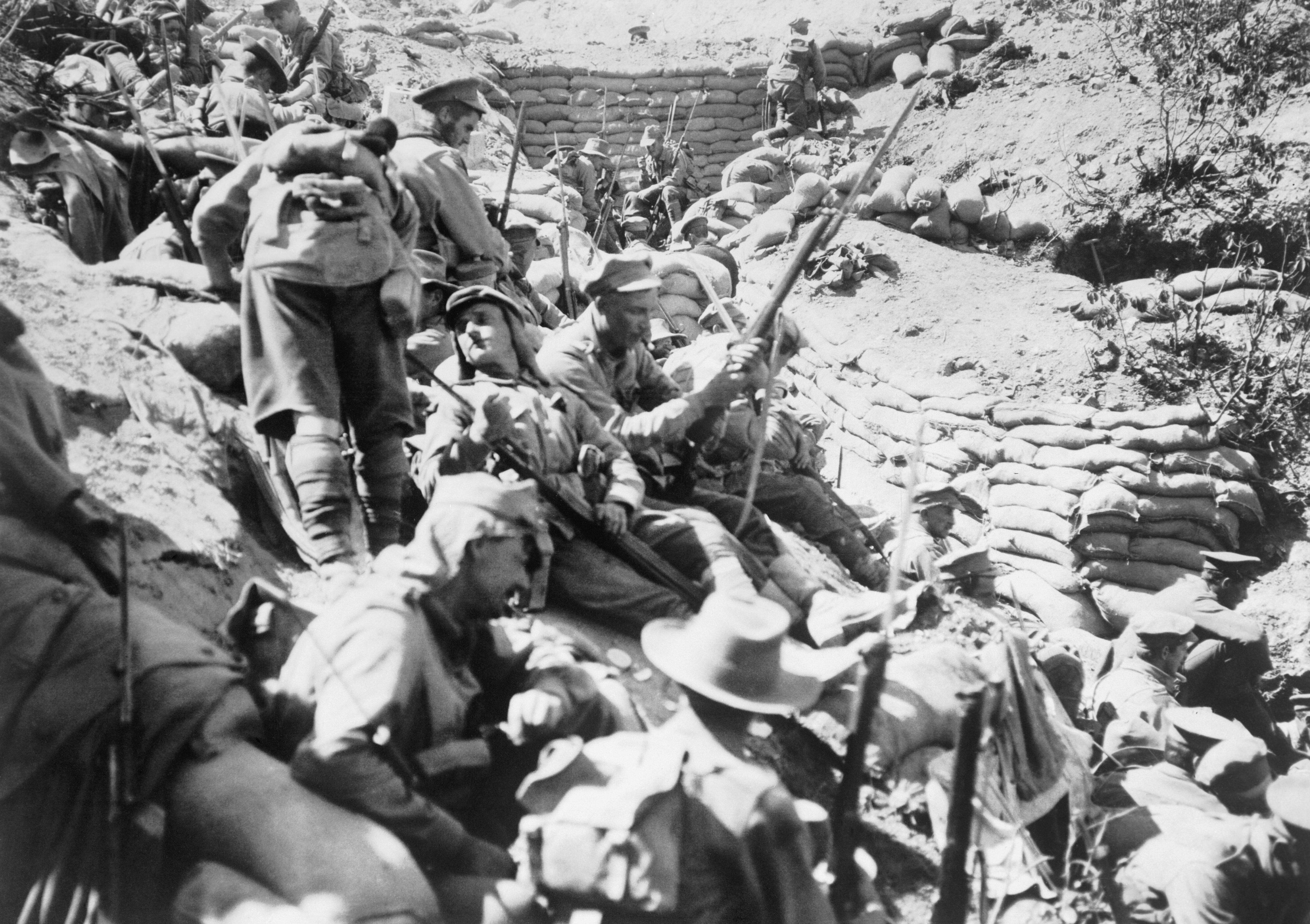 Support troops from the 4th Australian Infantry Brigade wait behind Quinn's Post, Gallipoli, May 1915.